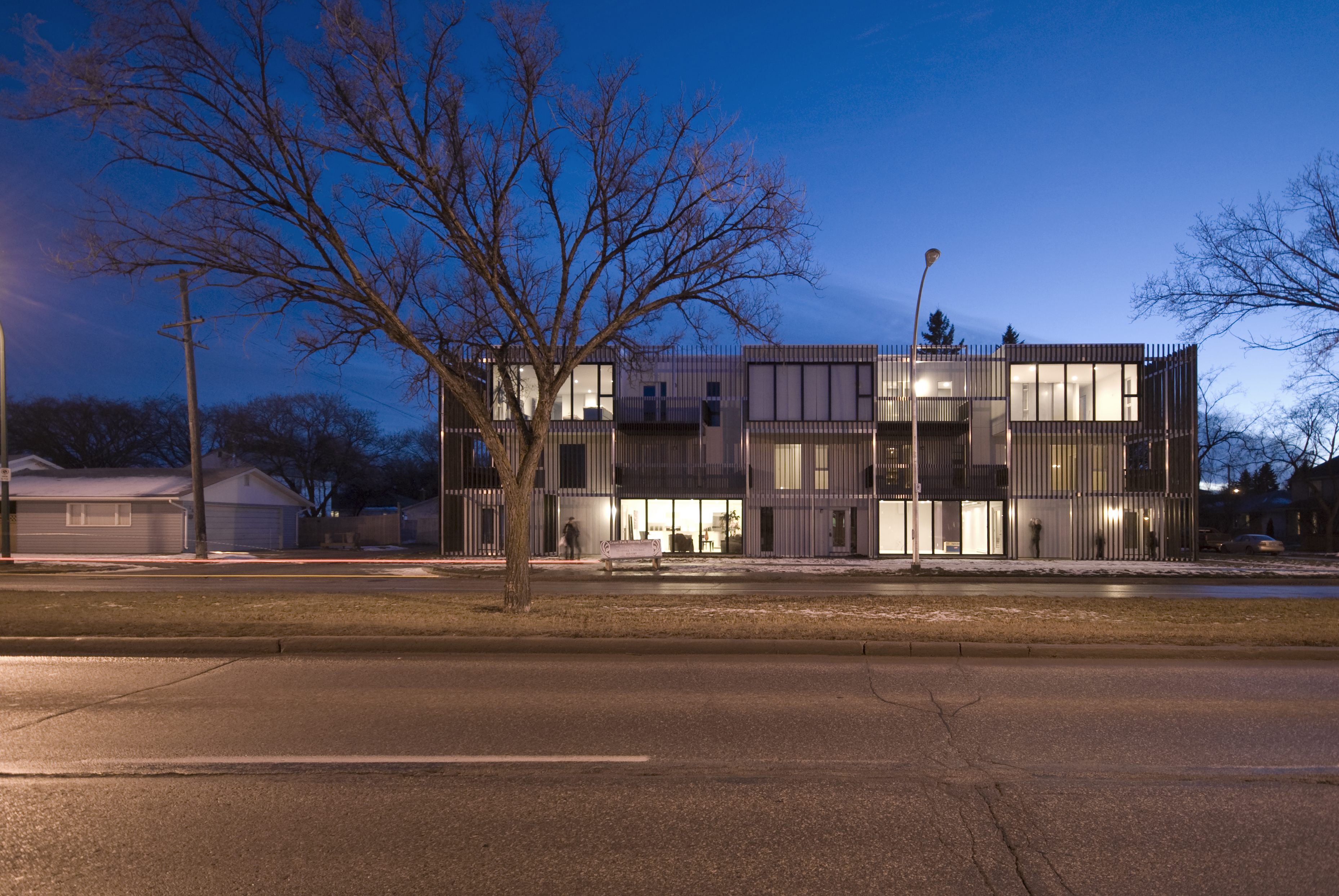 Award-winning Bloc_10 housing development by 5468796 Architecture located in Winnipeg, MB